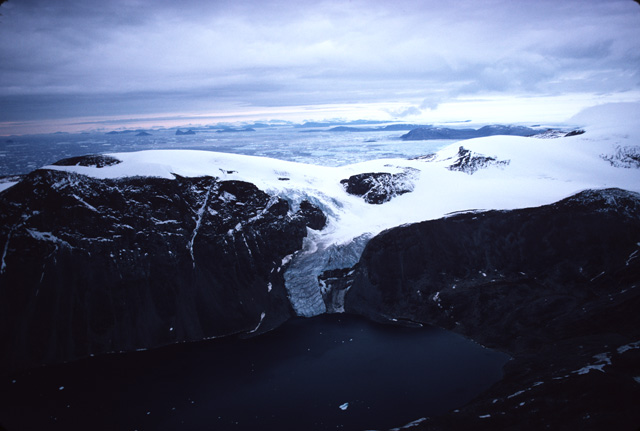 Nordenskiold Glacier